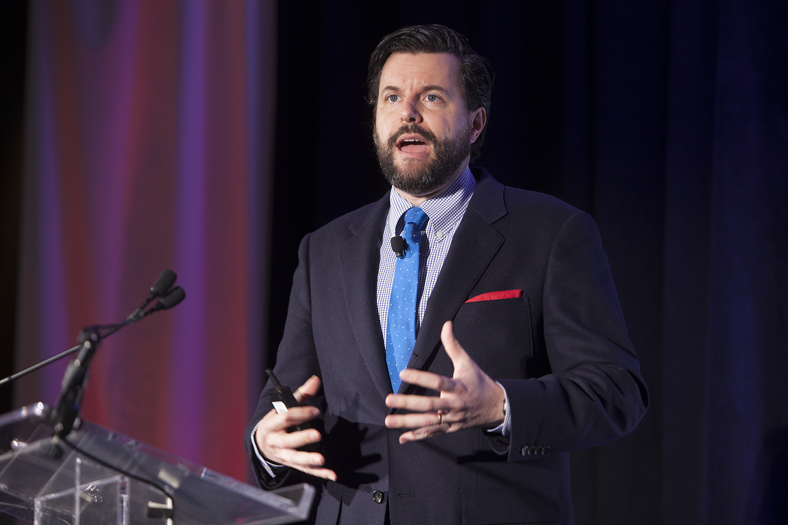 Summit keynote speaker Charles Duhigg focused his address on cases in the book "The Power of Habit" focusing on Starbucks and Alcoa.